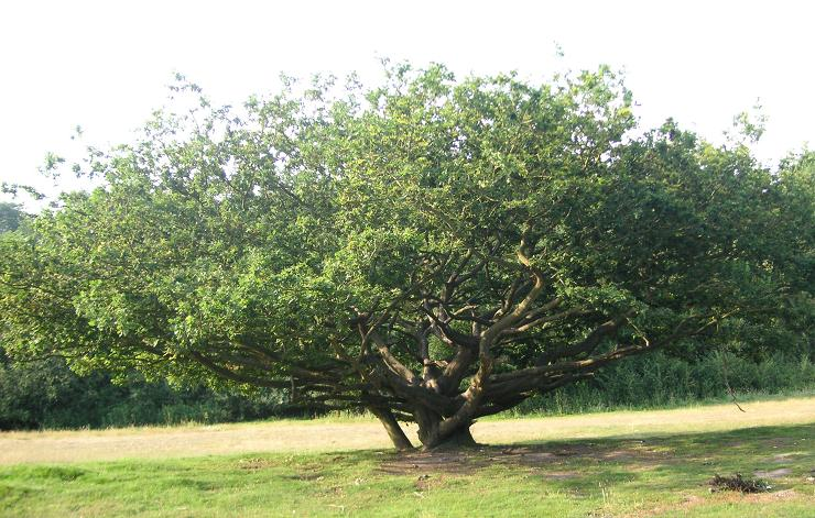 Photograph of "the best climbing tree in the world" on Nomansland common, Hertfordshire. Photo by Colin Riegels (1 July 2006)